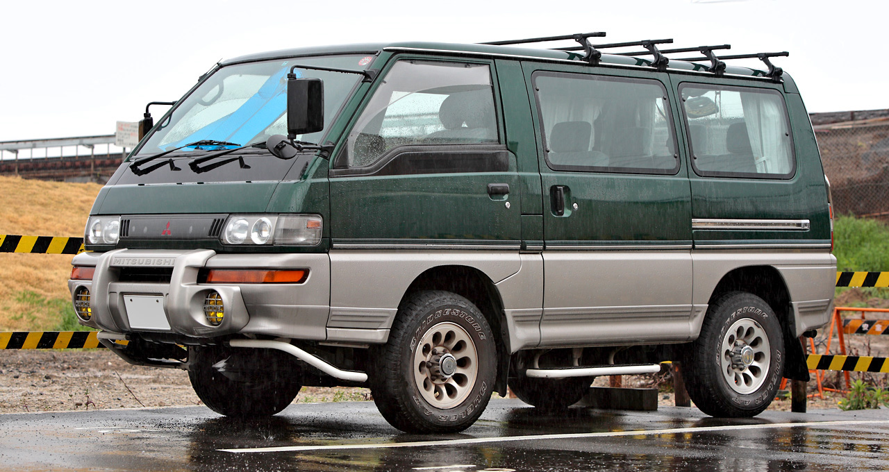 Mitsubishi Delica Star Wagon 4WD 2.5TD Active-world Aero-roof.